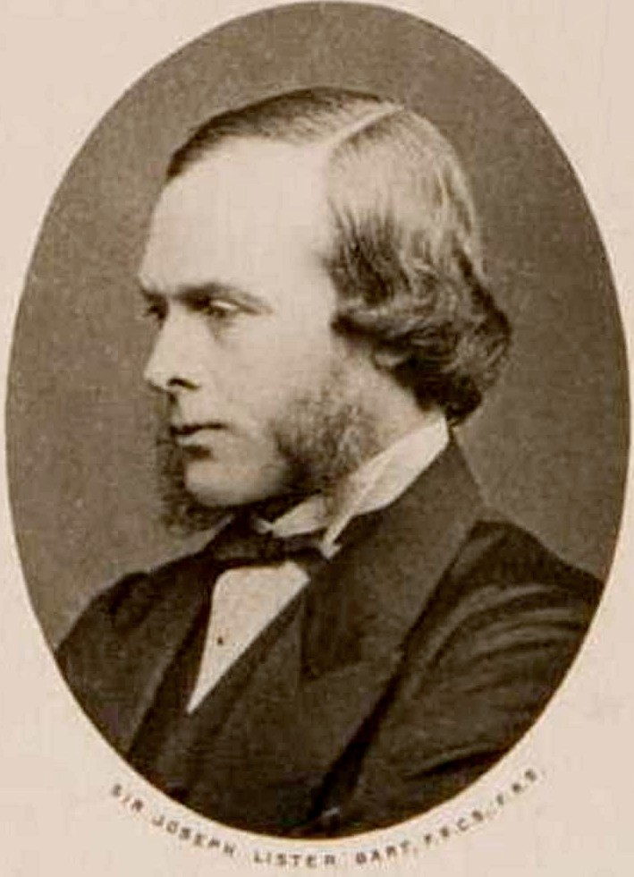 Joseph Lister, 1st Baron Lister (5 April 1827 – 10 February 1912)